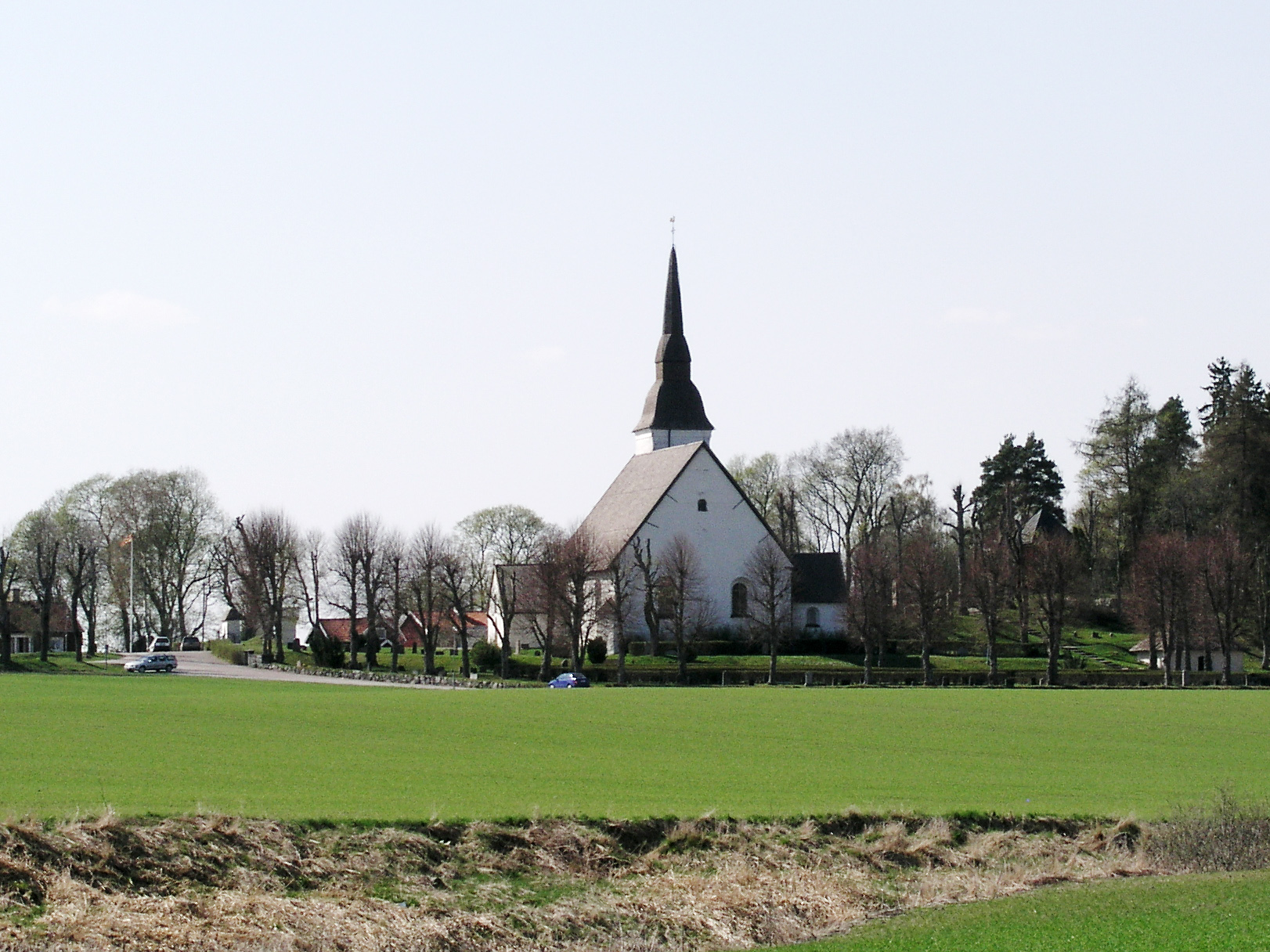 Åkers kyrka. The picture was taken the 7th of May 2006 by Håkan Svensson (Xauxa). Diocese of Strängnäs, Sweden.